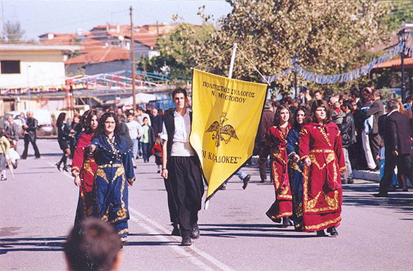 Cappadocian Greeks